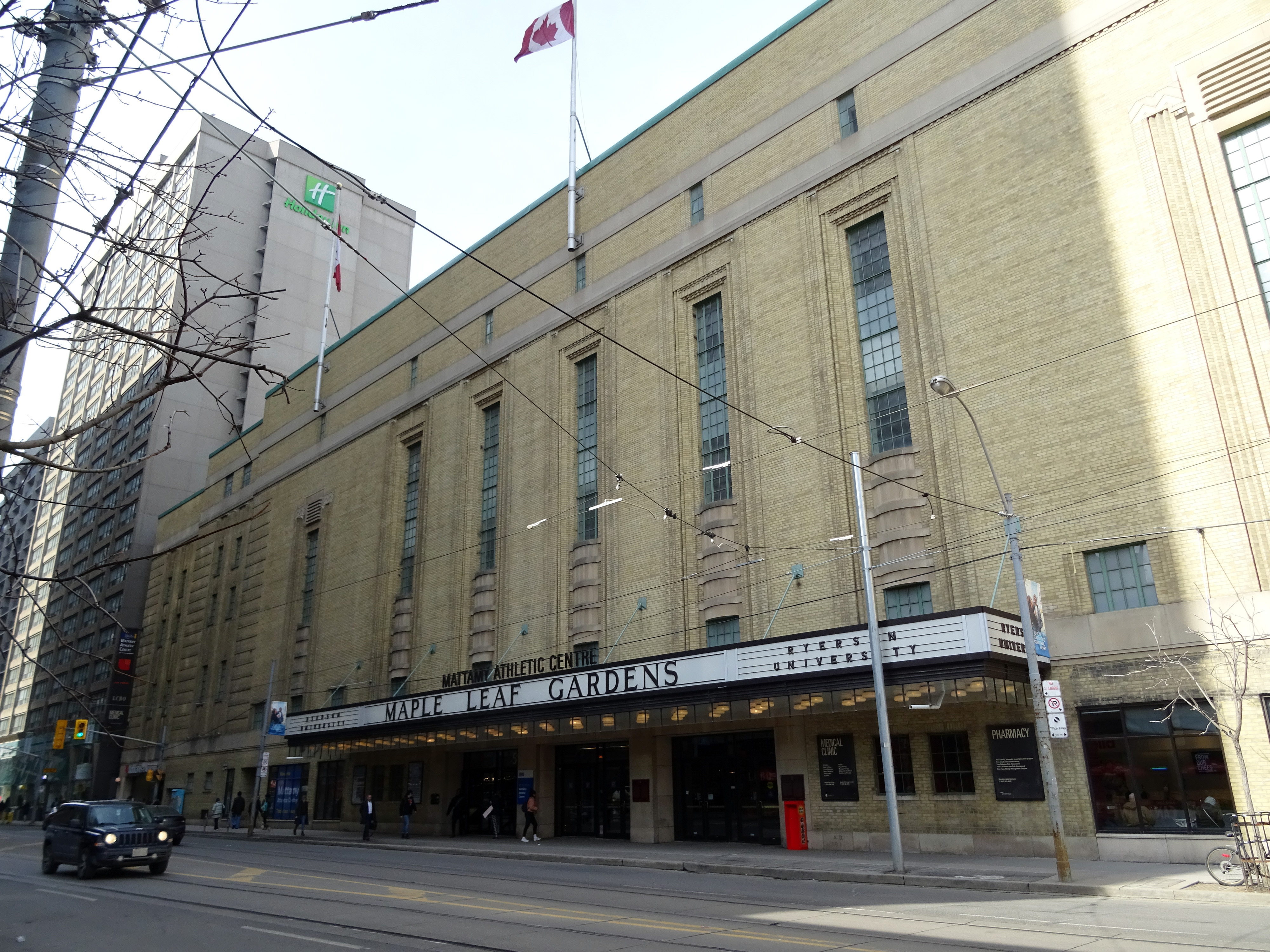 Maple Leaf Gardens - 50 Carlton Street, Toronto, ON M5B 1J2, Canada